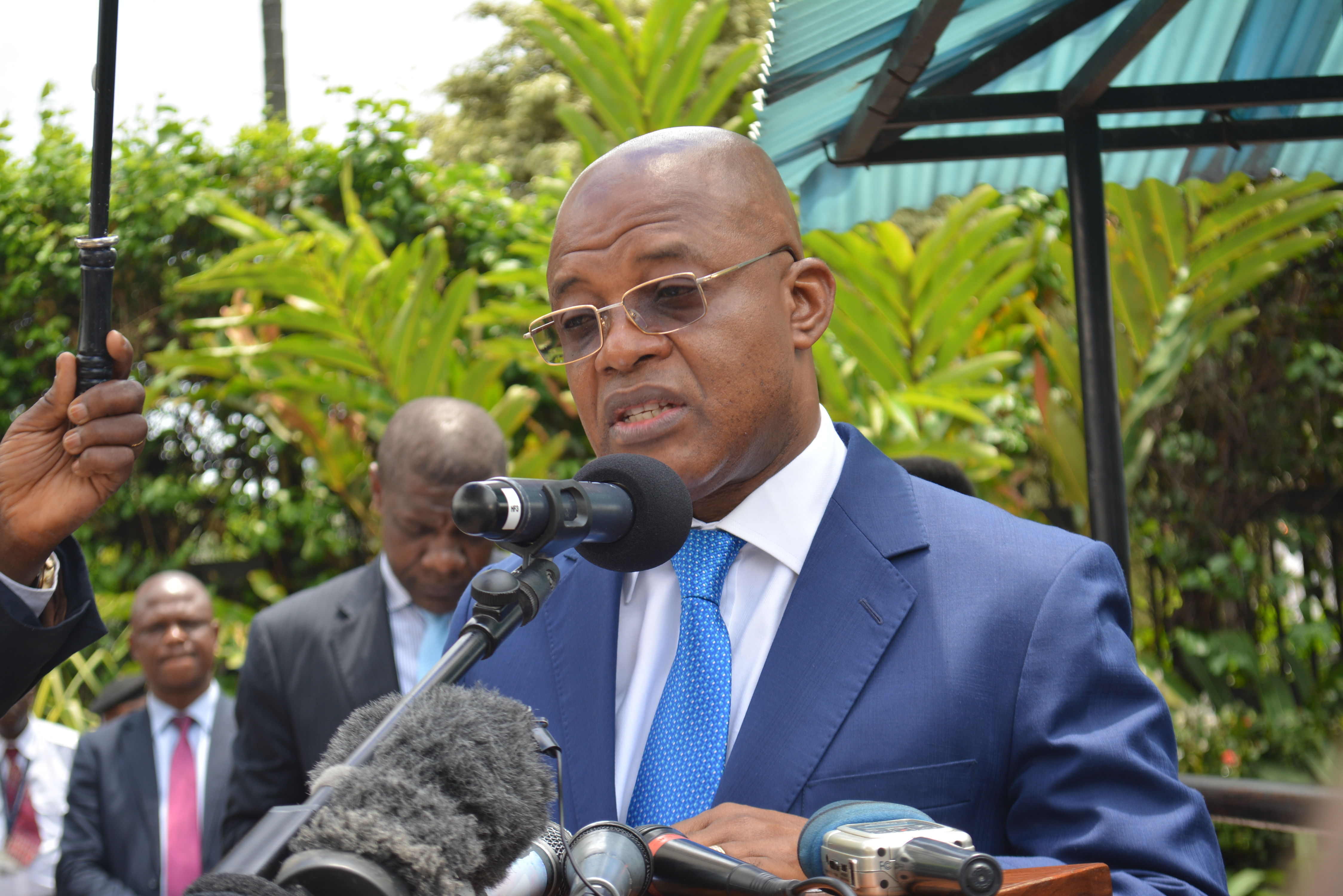 Losonia Building, Kinshasa, DR Congo: Ceremony marks United Nations Day, co-presided over by the Deputy Prime Minister and Minister for Interior and Security, Evariste Boshab (left), and the acting Special Representative of the UN Secretary-General, David Gressly (middle) in the presence of the Deputy Special Representative of the Secretary-General and Humanitarian Coordinator, Dr Mamadou Diallo (right). Photo MONUSCO/John Bompengo